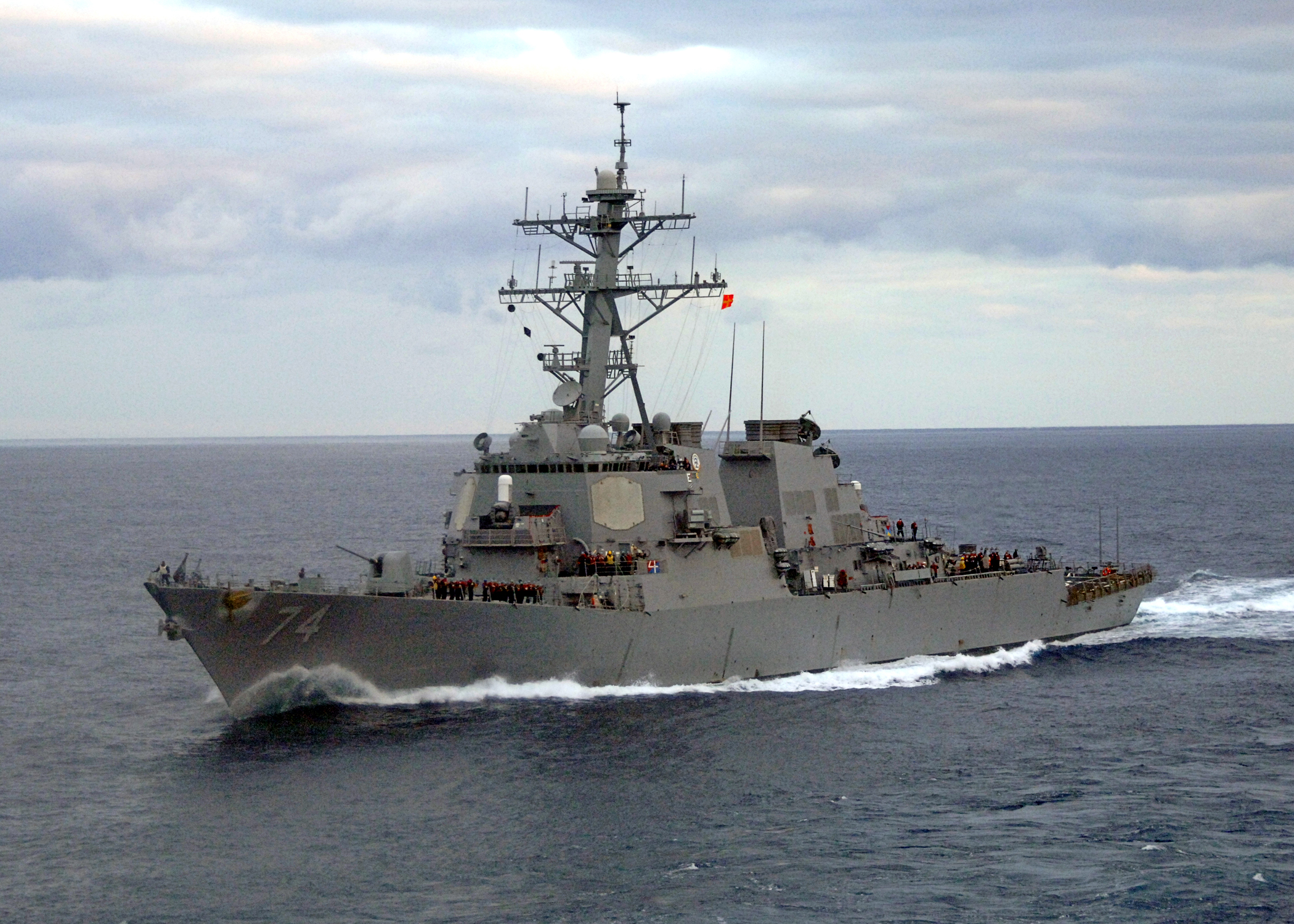 051105-N-0119G-016 Atlantic Ocean (Nov. 5, 2005) - The guided missile destroyer USS McFaul (DDG 74) underway in the Atlantic Ocean. McFaul is currently conducting operations with the Enterprise Carrier Strike Group. Enterprise and embarked Carrier Air Wing One (CVW-1) are currently underway in the Atlantic Ocean conducting Tailored Ship's Training Availability (TSTA). U.S. Navy photo by Photographer's Mate 3rd Class Rob Gaston (RELEASED)